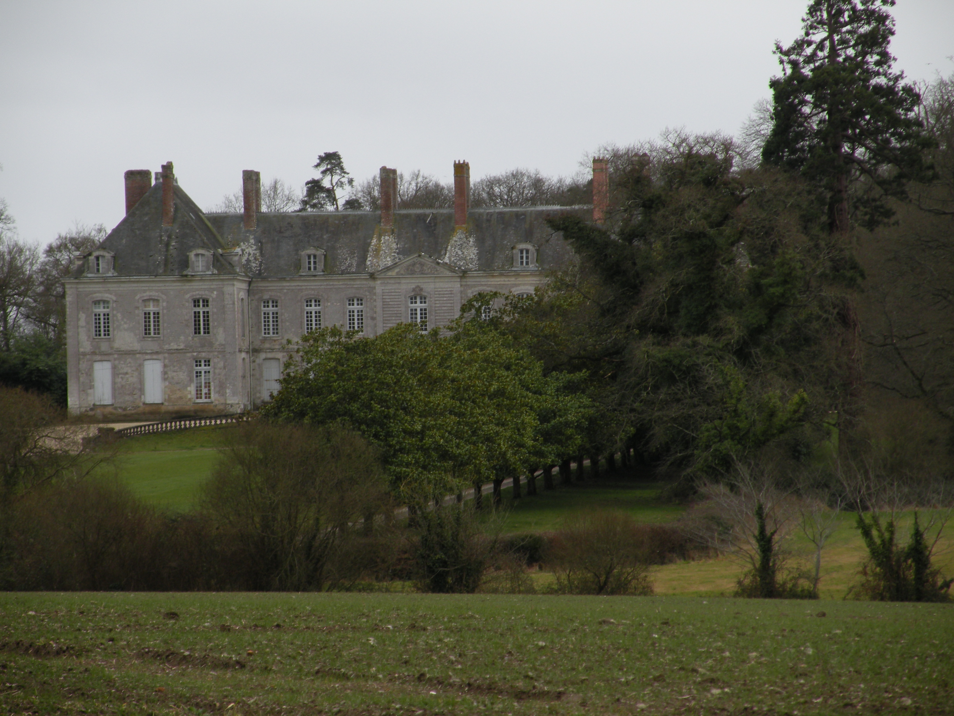 Plessis castle in Casson